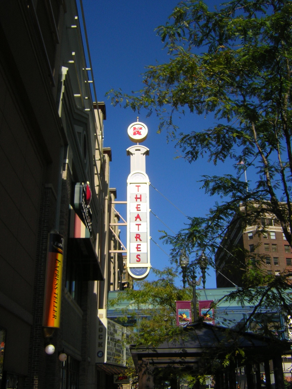 A Kerasotes Theatre on Hennepin Avenue, part of the Hennepin Theatre District in Minneapolis, Minnesota, USA